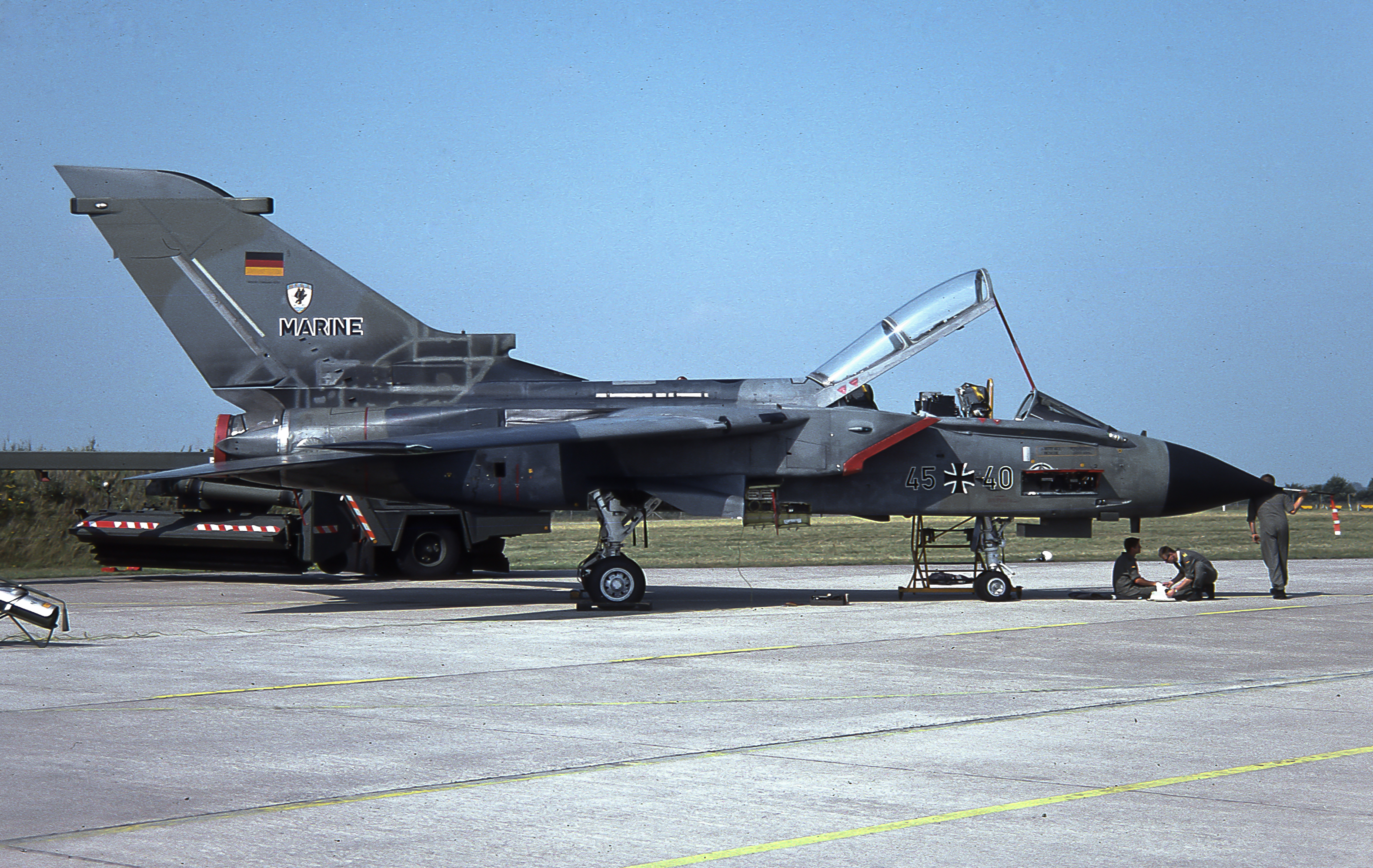 Taken at Eggebeck Airshow in 1996